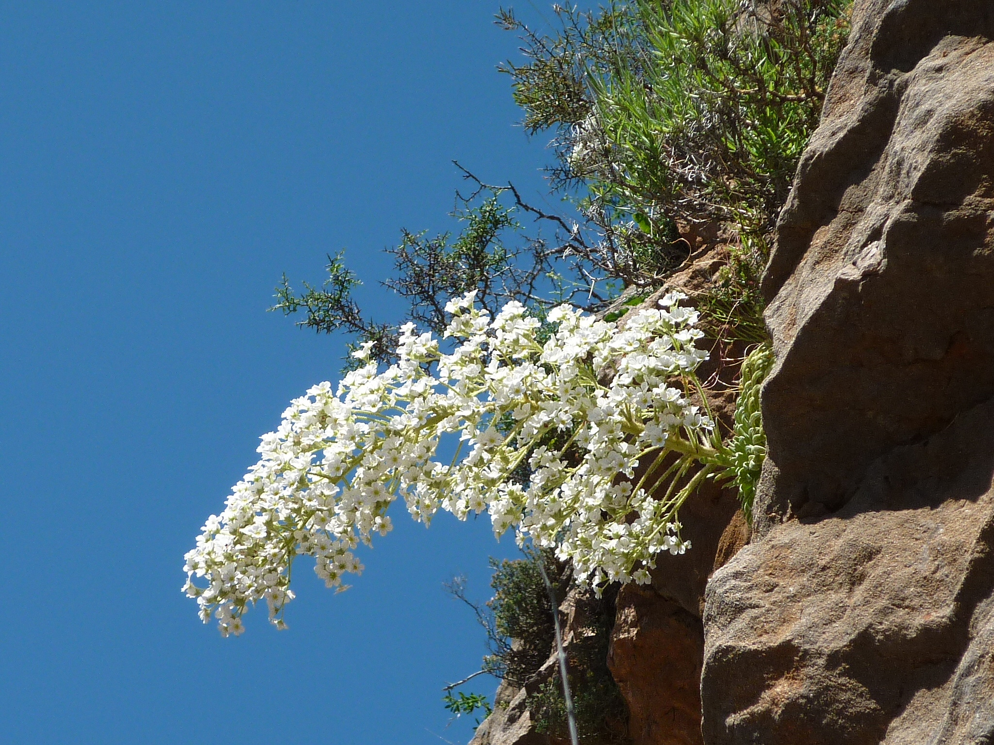 Saxifraga longifolia. In la Coma i la Pedra (Solsonès - Catalunya). To 1.450 m. altitude